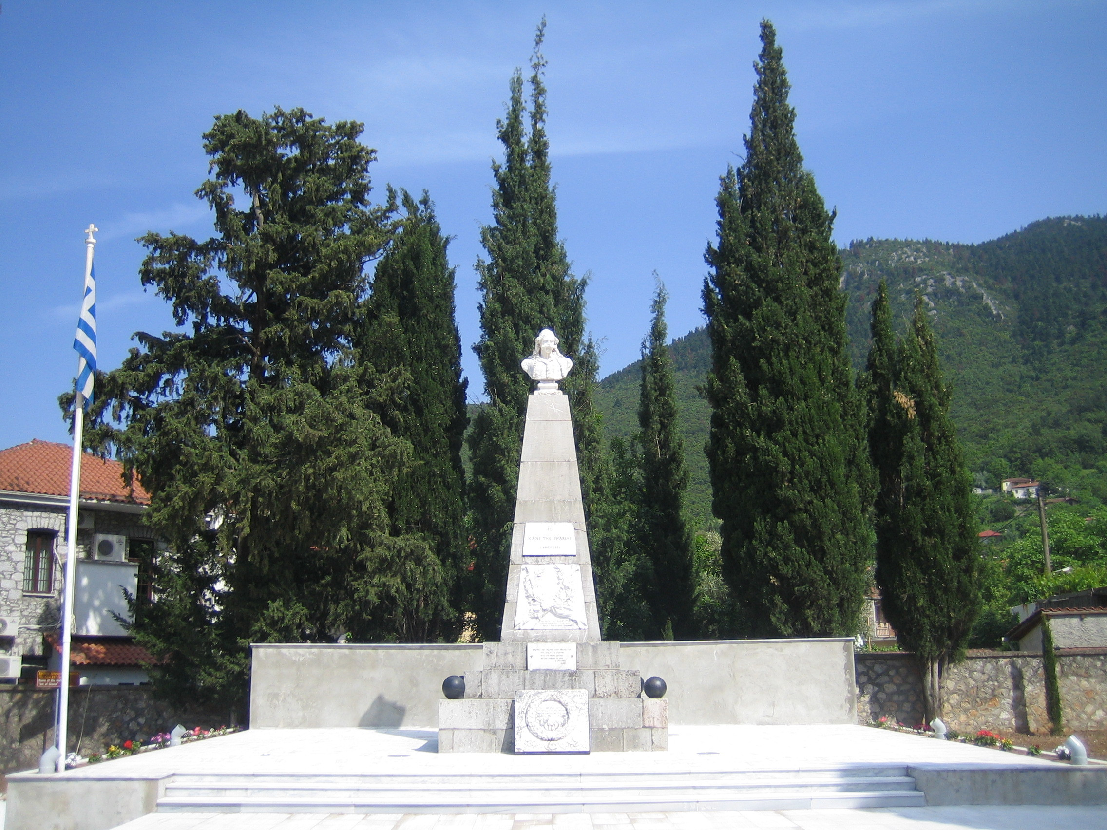 Monument of Odysseas Androutsos and the Battle of Gravia Inn. Gravia, Greece.